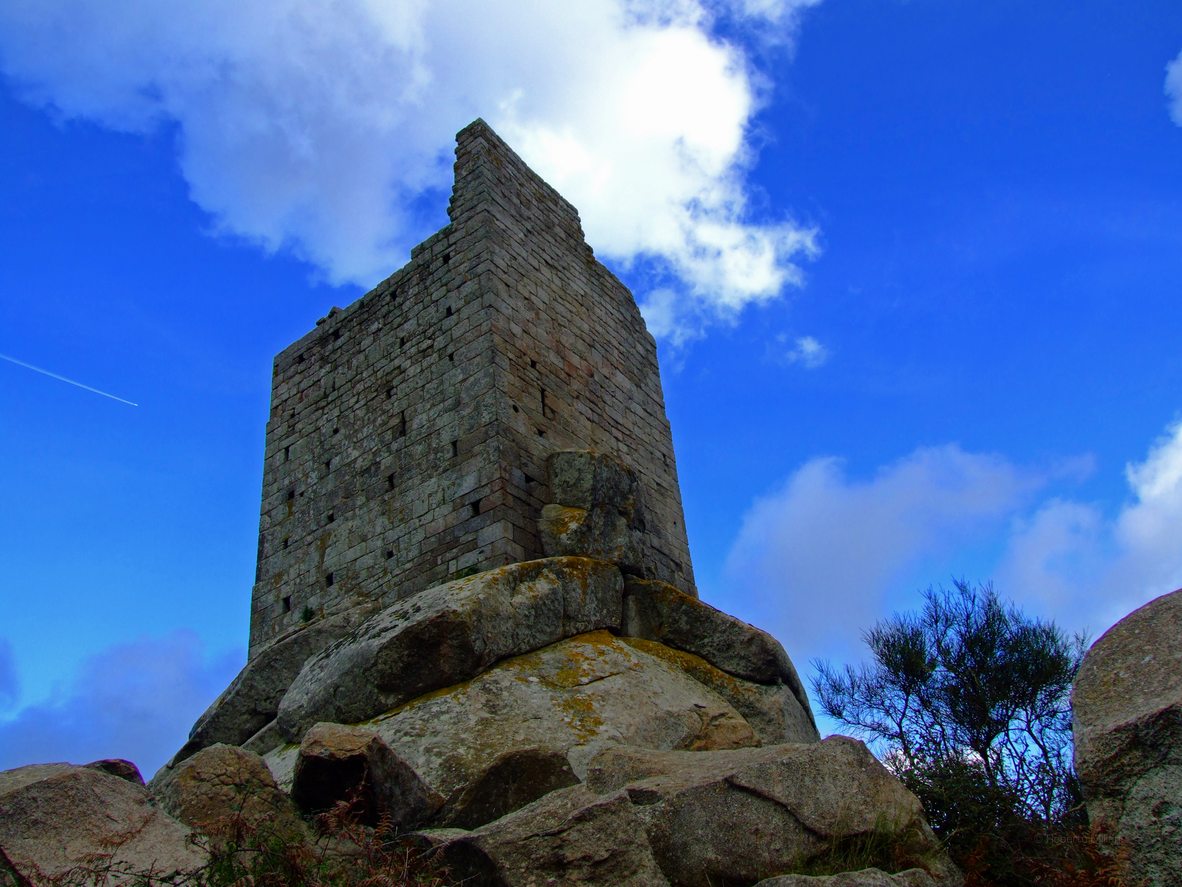 see above